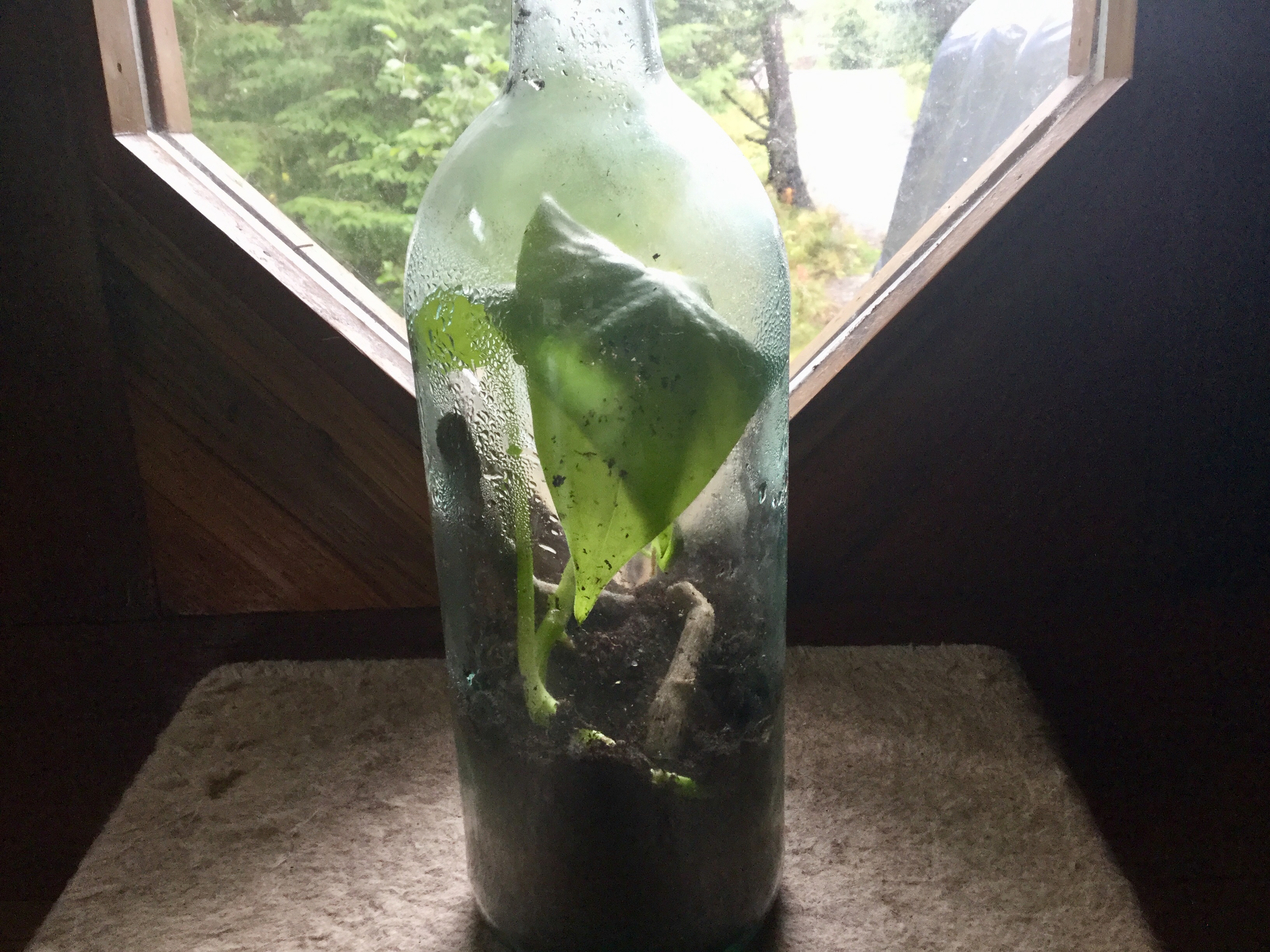 Epipremnum aureum (lime pothos) in a sealed wine bottle. At this point the bottle has not been opened in three months